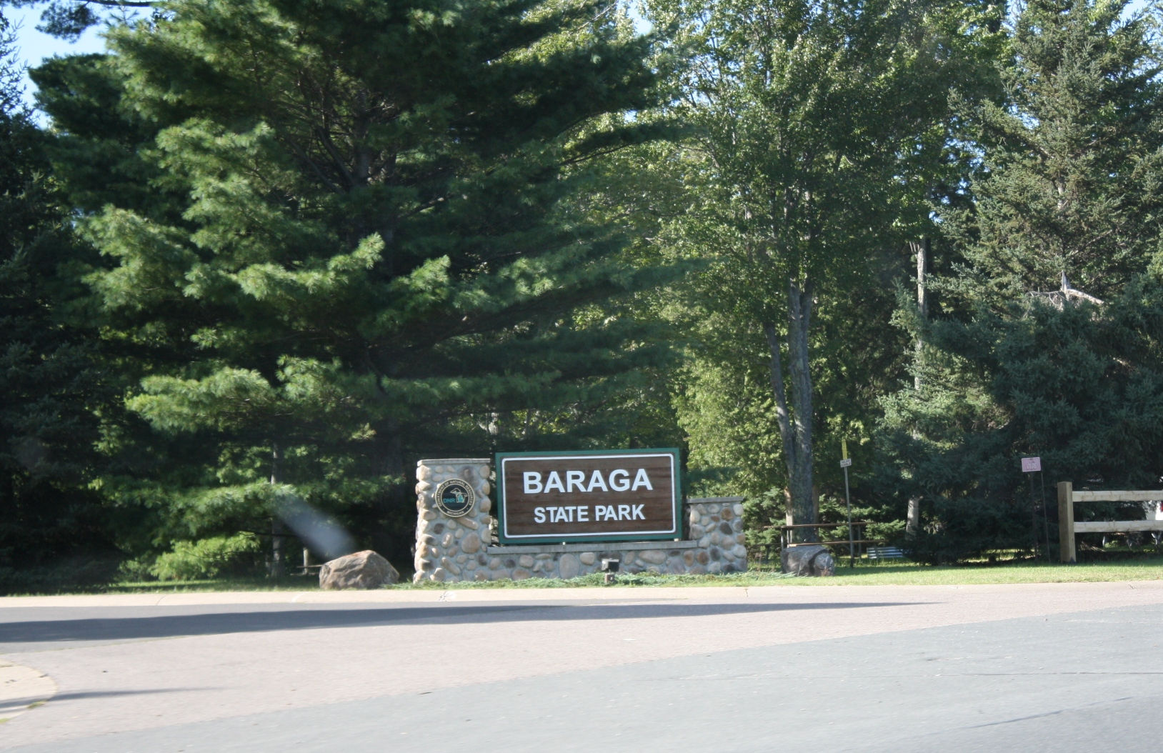 The entrance sign for Baraga State Park near Baraga, Michigan.